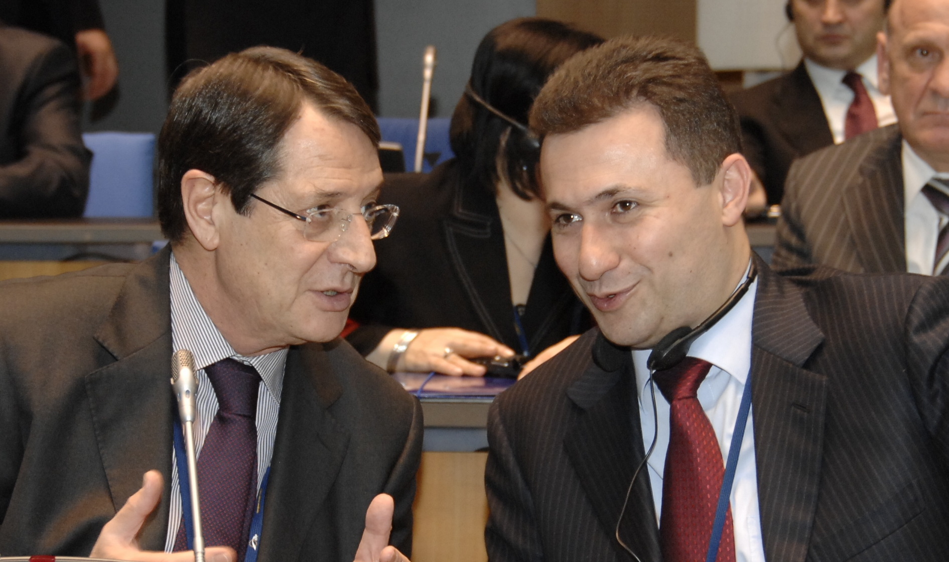 EPP Congress Bonn